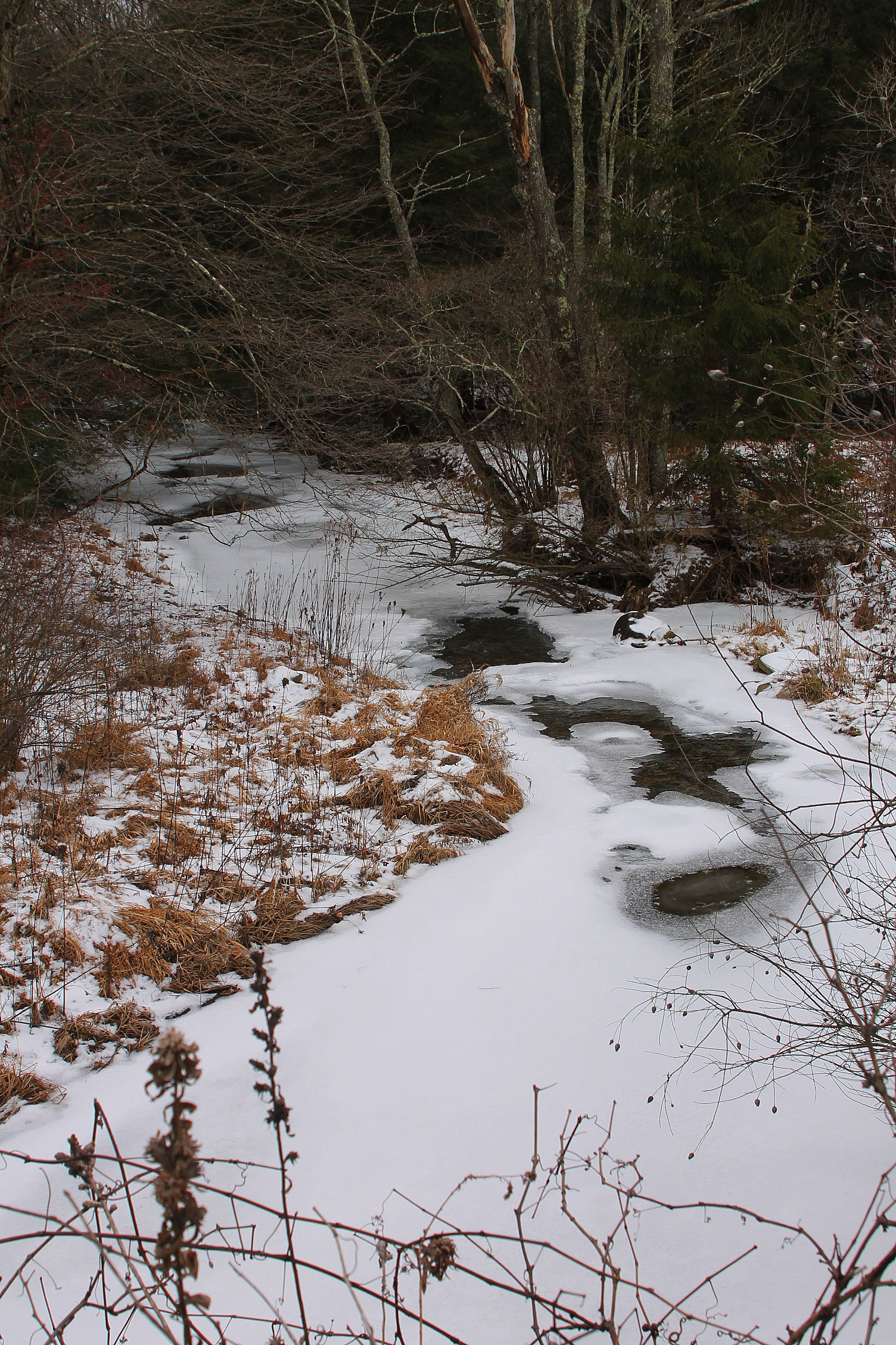 Devil Hole Run, a tributary of Little Fishing Creek, as seen from Devil Hole Run Road